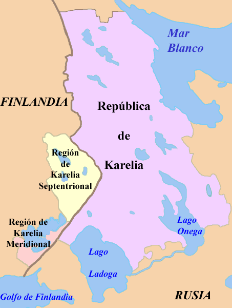 Map of the current Karelia(s) in Spanish